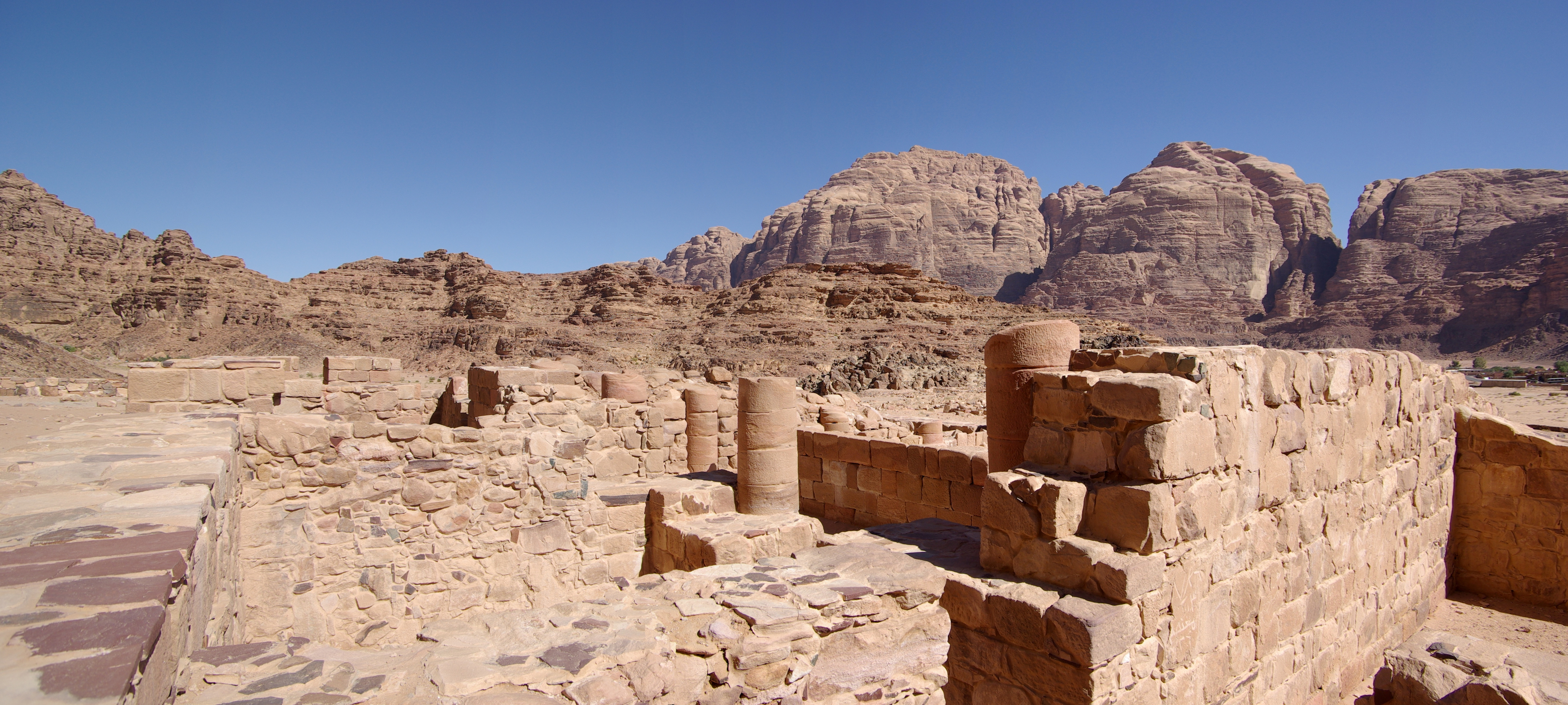 Wadi Rum, ruins of a nabataean temple